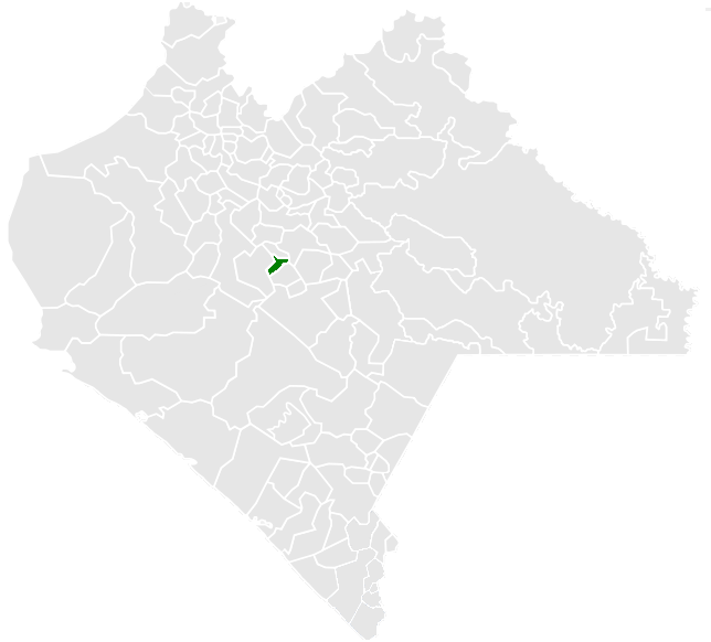 Map of the Municipalty of Chiapilla in the State of Chiapas, México.